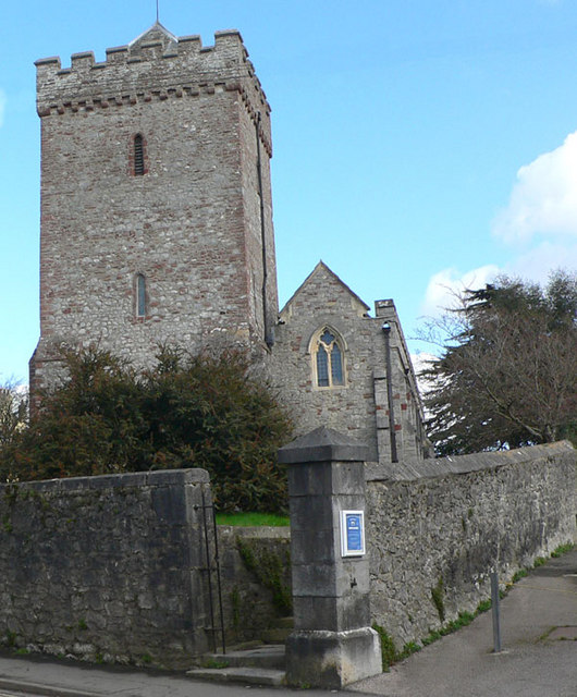 Chudleigh Parish Church There has been a place of Christian worship here since before the Norman Conquest. This is in Fore Street, the path alongside goes to the tennis court and playpark.